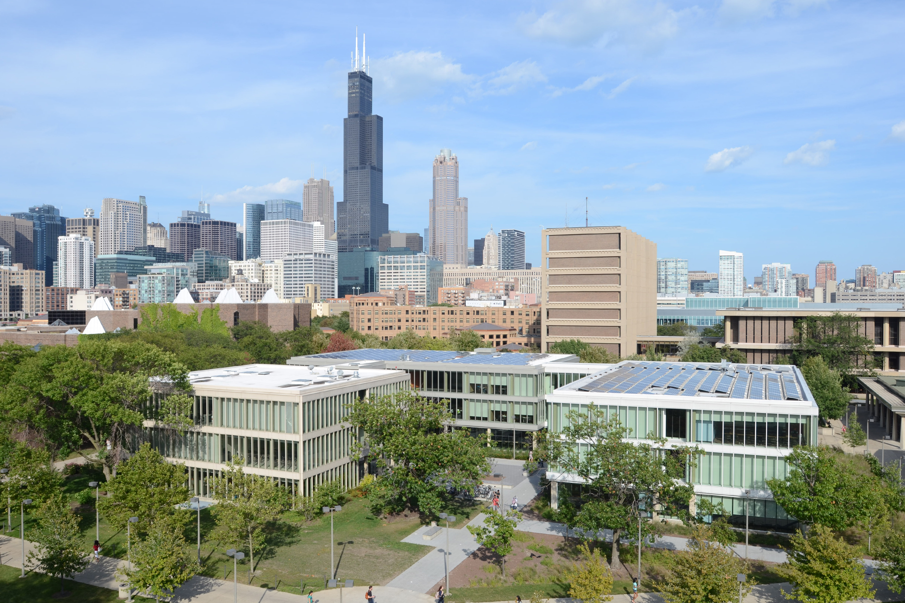 UIC Campus